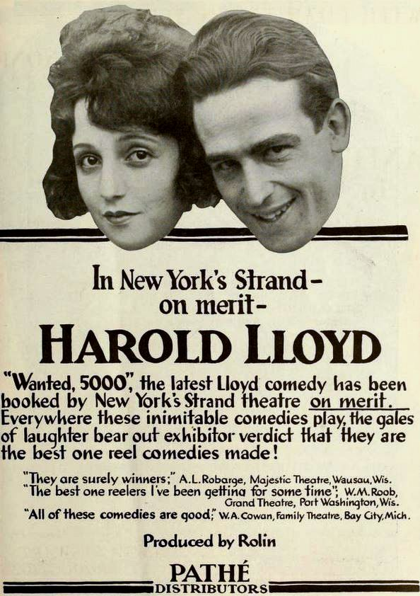 Ad for the American comedy film Wanted - $5,000 (1919) with Harold Lloyd and Bebe Daniels, on page 721 of the February 8, 1919 Moving Picture World.